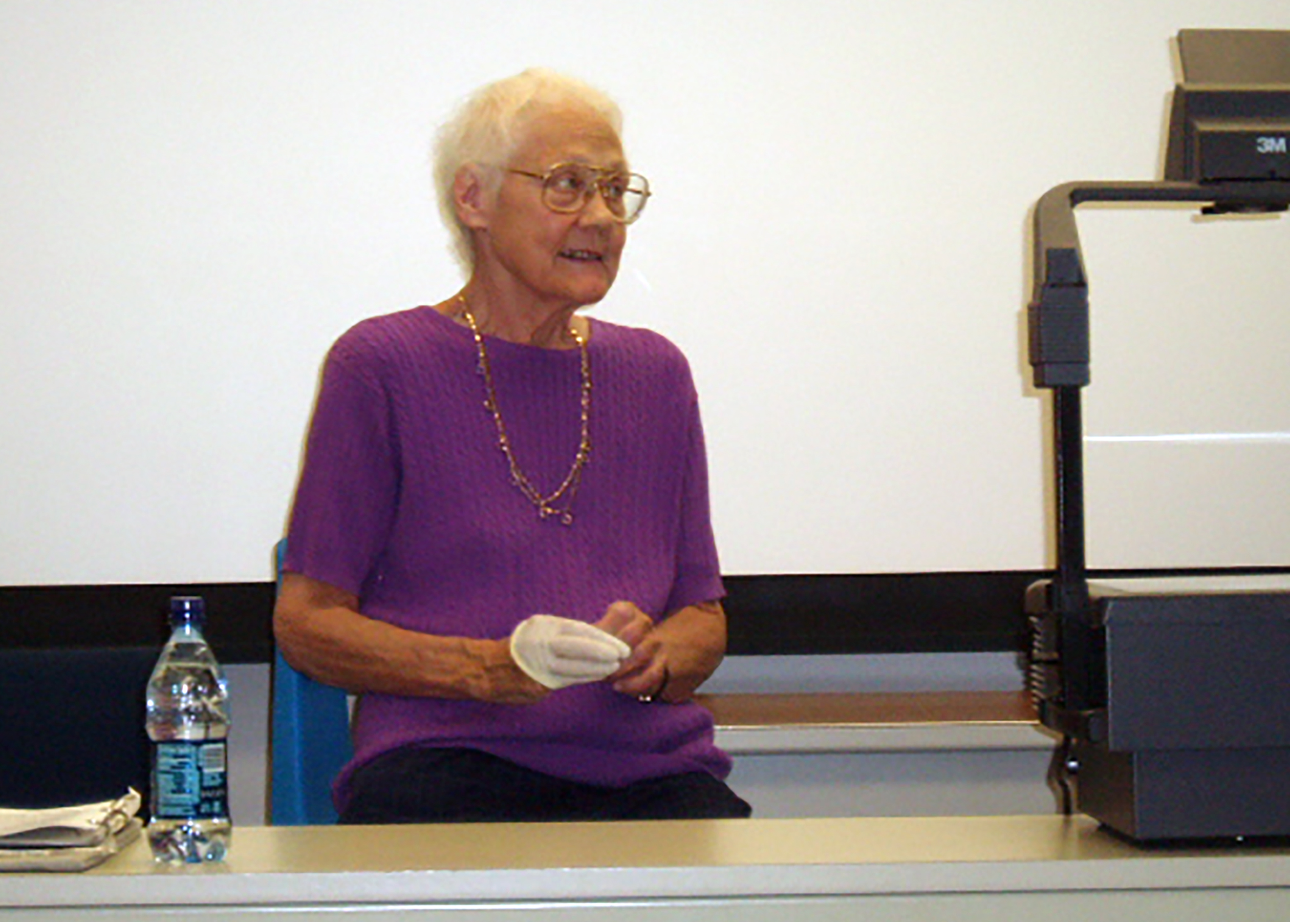 American LGBT activist Barbara Gittings at UCLA in 2006.